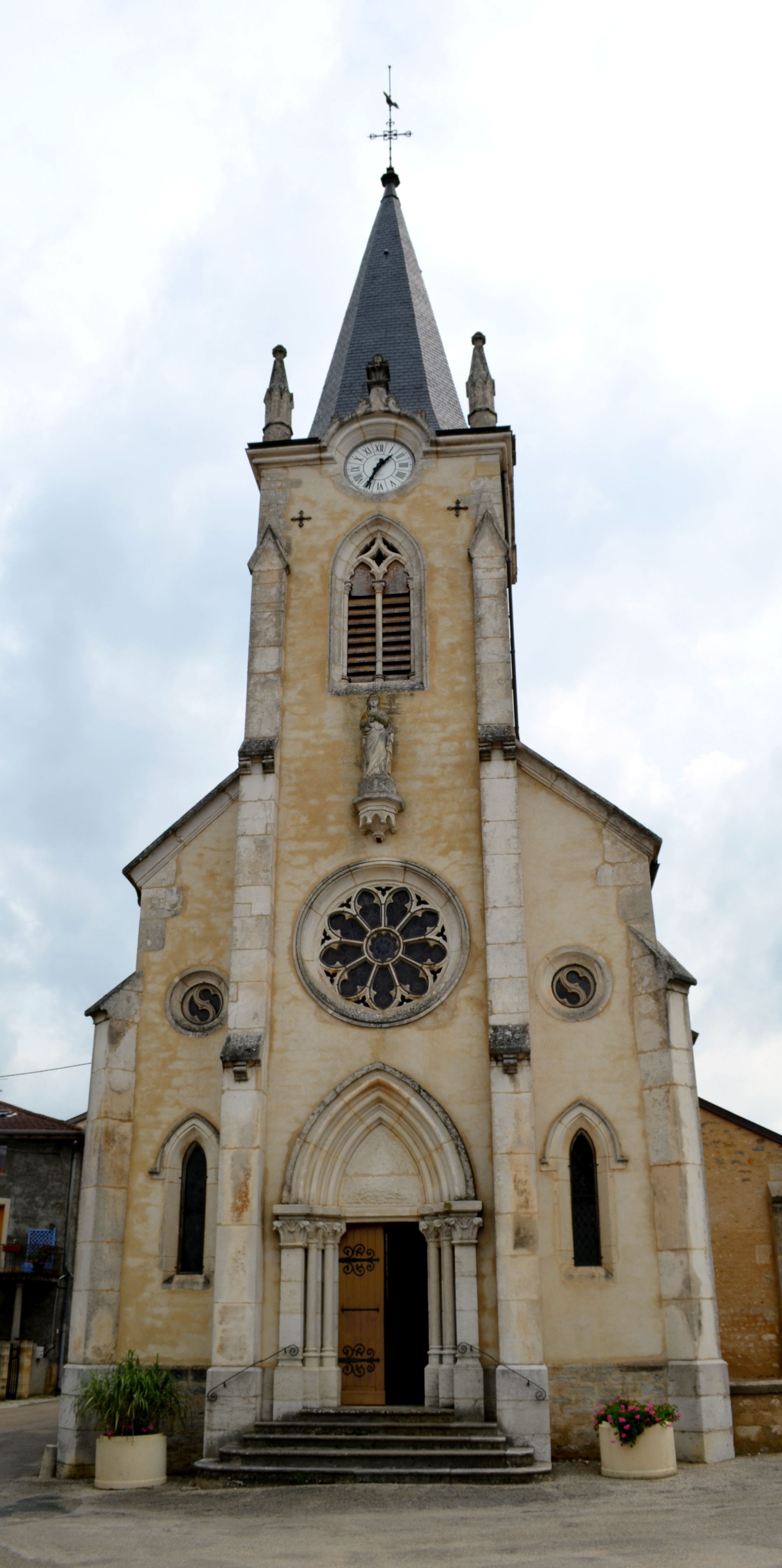 Exterior of church of Saint-Maurice-de-Rémens.